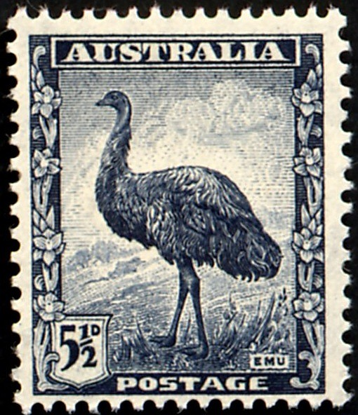 A postage stamp of Australia issued 1942